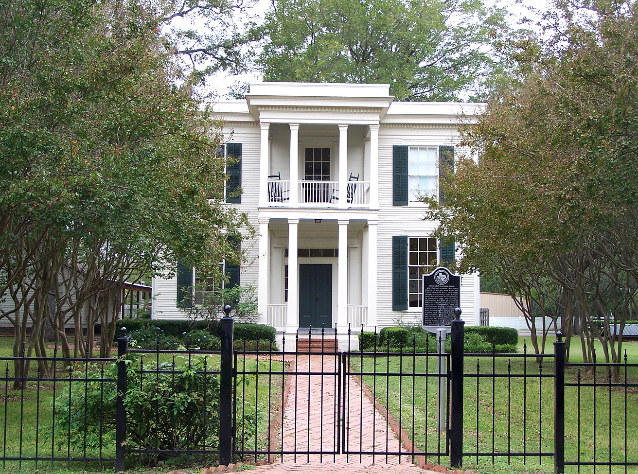 The Crocheron-McDowall House located at 1502 Wilson St, Bastrop, Texas, United States was built in 1857. It was designated a Recorded Texas Historic Landmark in 1962 and listed on the National Register of historic places on April 20, 1978.